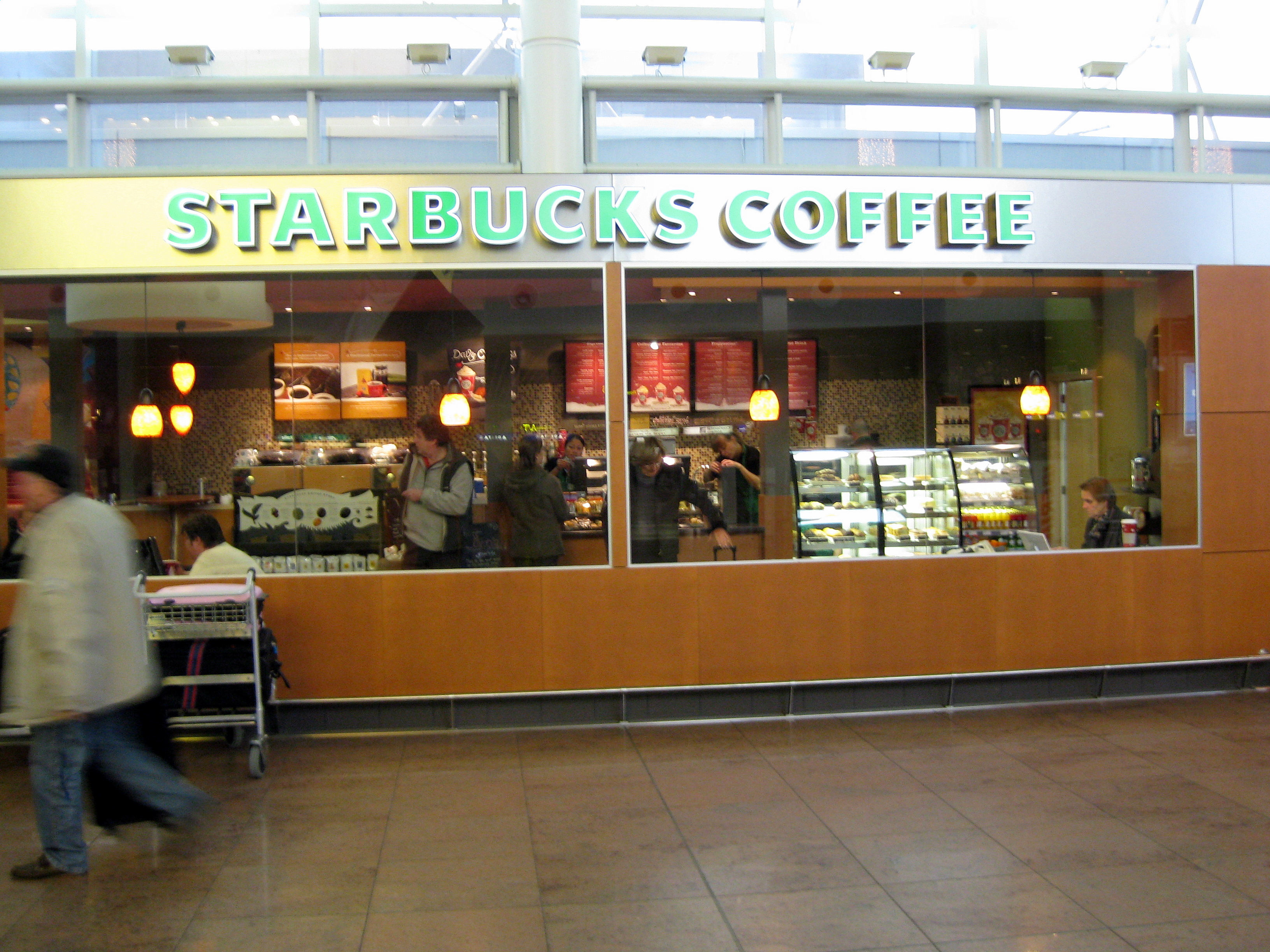 Starbucks shop in Brussels Airport